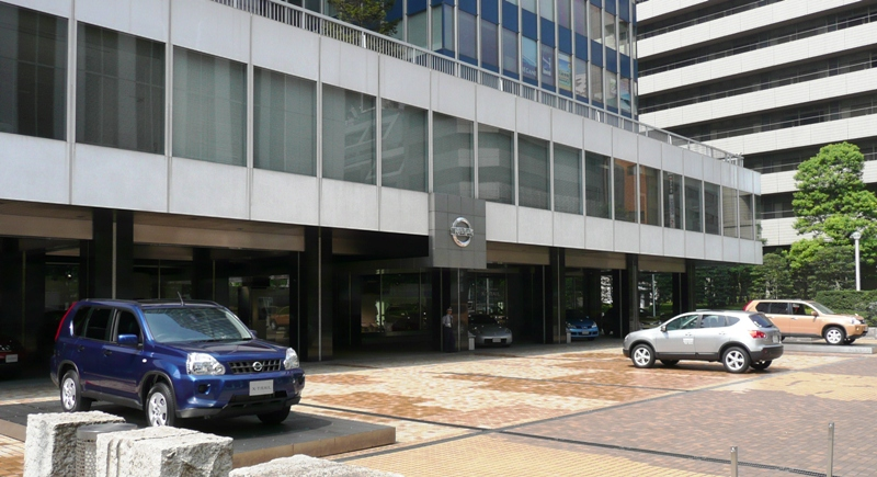 Nissan honsha gallery.